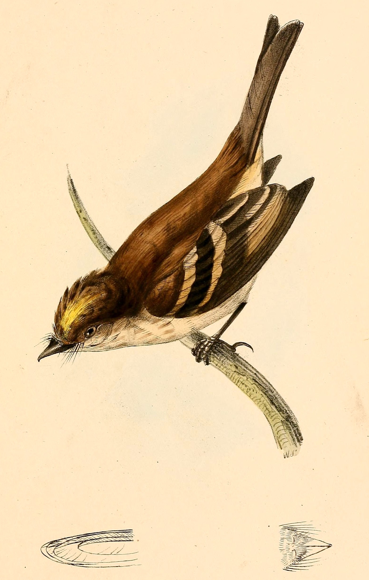 Tyrannula ferruginea = Myiophobus fasciatus (Bran-colored Flycatcher)